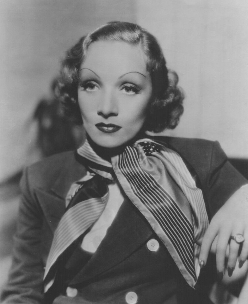 Publicity photo of Marlene Dietrich for Paramount Pictures, 1936.